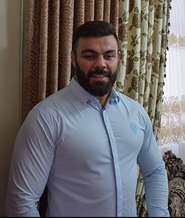 Amir Aliakbari Аҧсшәа: دیدار جمعی از مبلغان و مادحان کشور با امیر علی‌اکبری قهرمان مسابقات جهانی ام.ام.آی هنرهای رزمی ترکیبی دیدار کرده و از مواضع آئینی این ورزشکار ارزشی تقدیر به عمل آوردند.